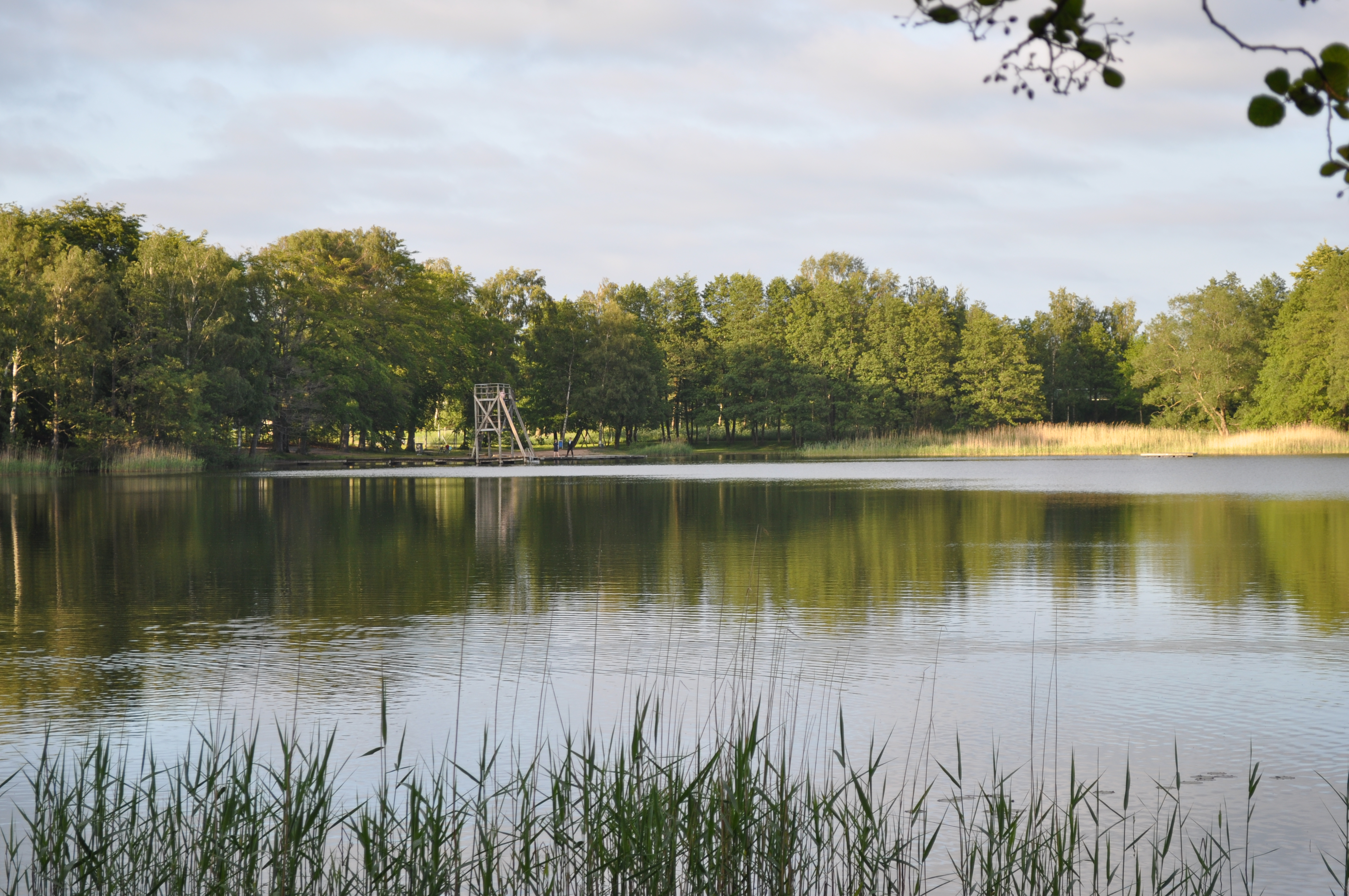 Glänninge sjö in Laholm.